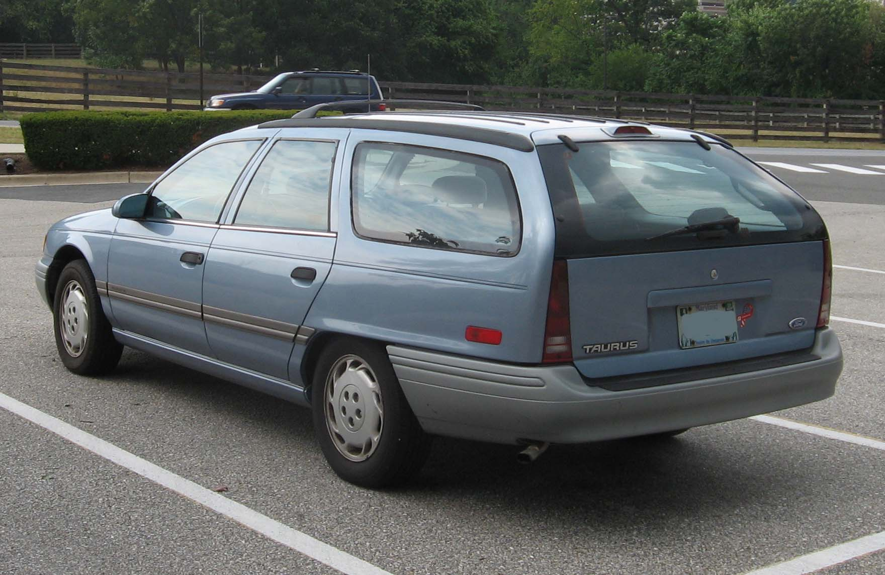 1992 Ford Taurus GL photographed in USA.